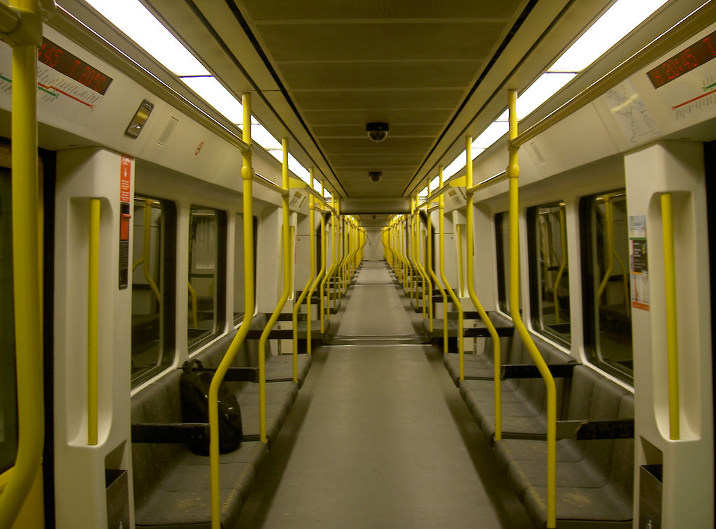 Inside view of a Valencia metro train